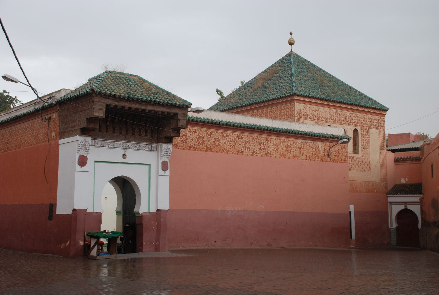 Marrakech, tomb of Sidi ben Abdallah El Ghazouani